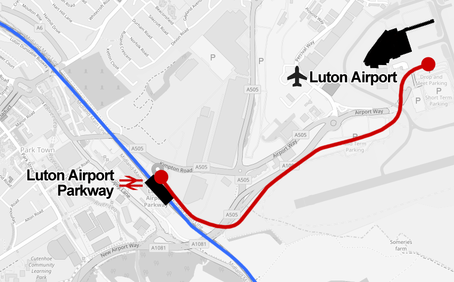 Map of the planned Luton DART transit from Luton Airport Parkway railway station to Luton Airport This map may be incomplete, and may contain errors. Don't rely solely on it for navigation.